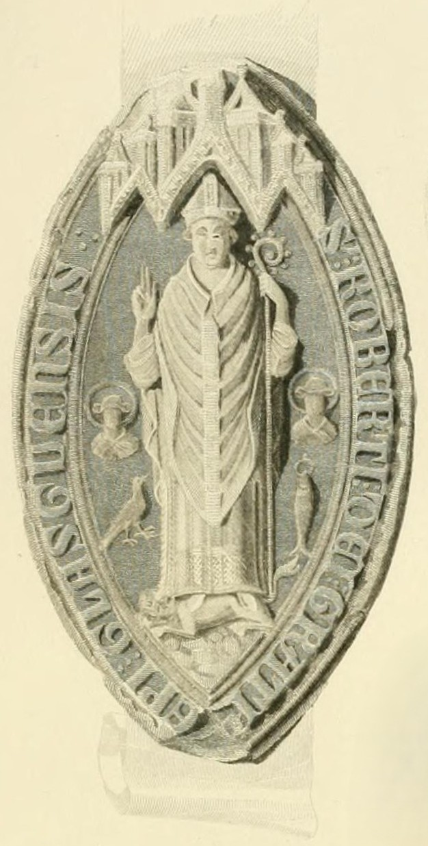 arms of Robert Wishart, Bishop of Glasgow